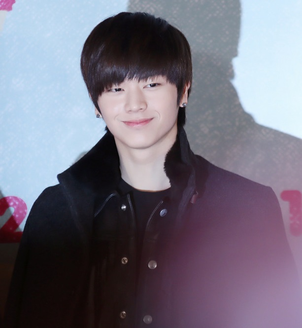 140120 BTOB Yook Sungjae.